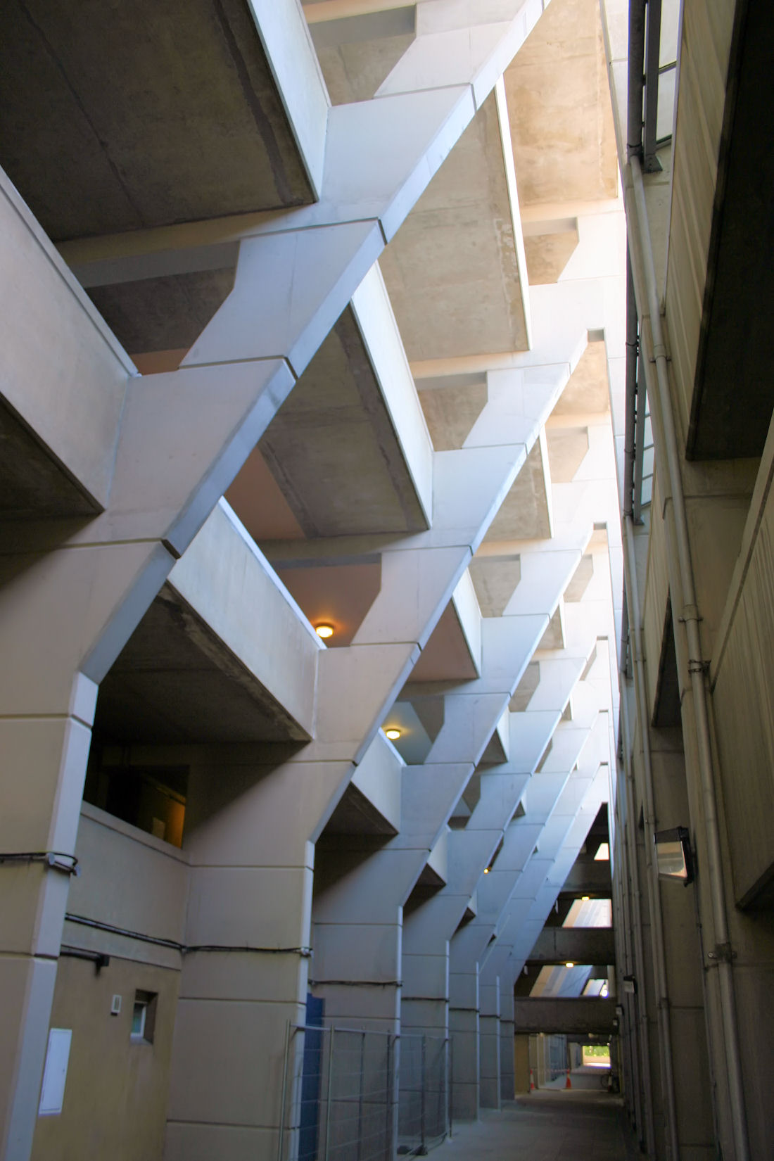 Taken by Ian Mansfield inside the residential area of Brunswick Centre on Sept 15th 2007. Visit arranged by London Open House Weekend - the area is normally closed to the public. Image shows the "A frame" concrete struture supporting the walkways which lead to the flats overlooking the shopping center